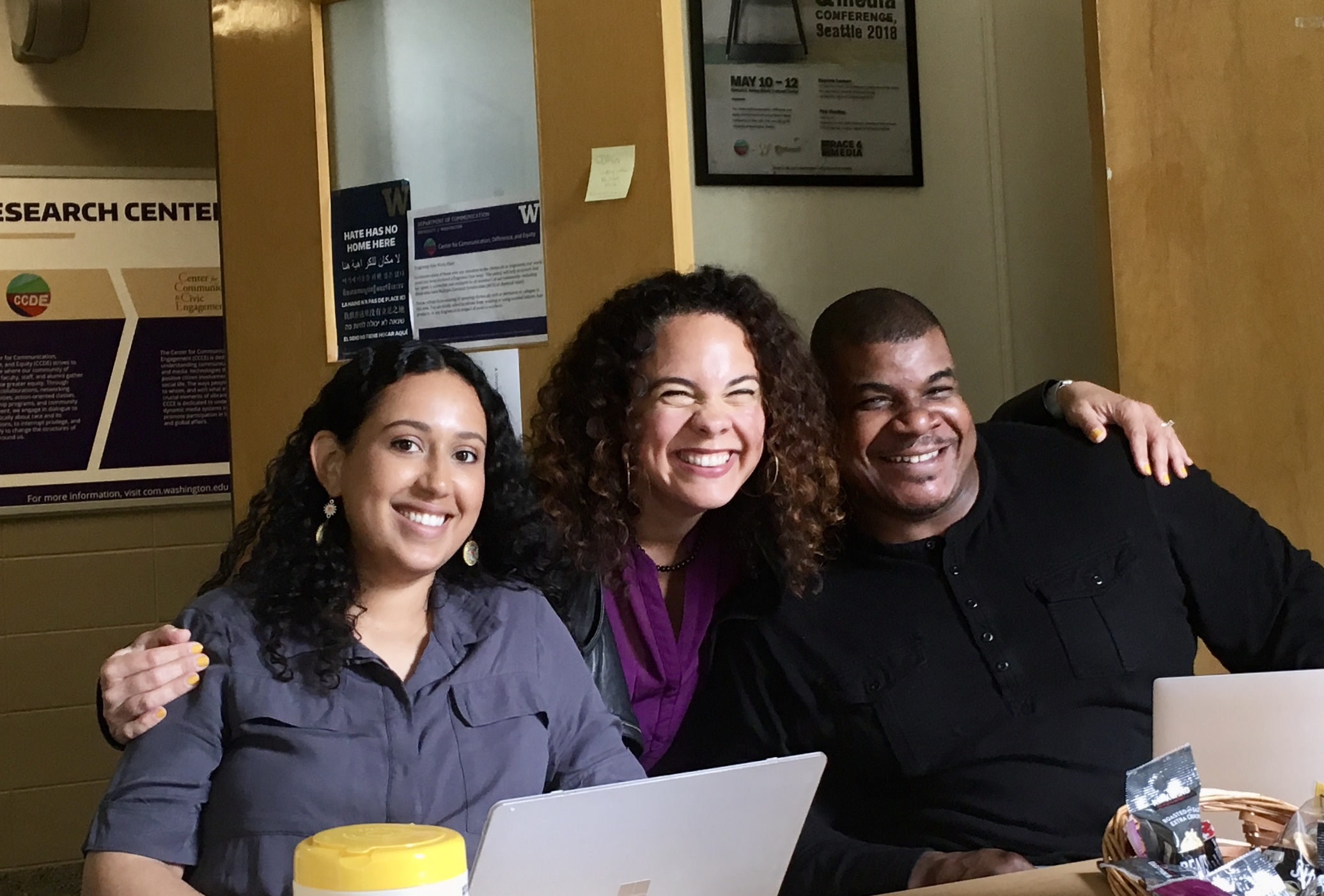 This is a picture of Dr. Joseph with students in the Center for Communication, Difference, and Equity